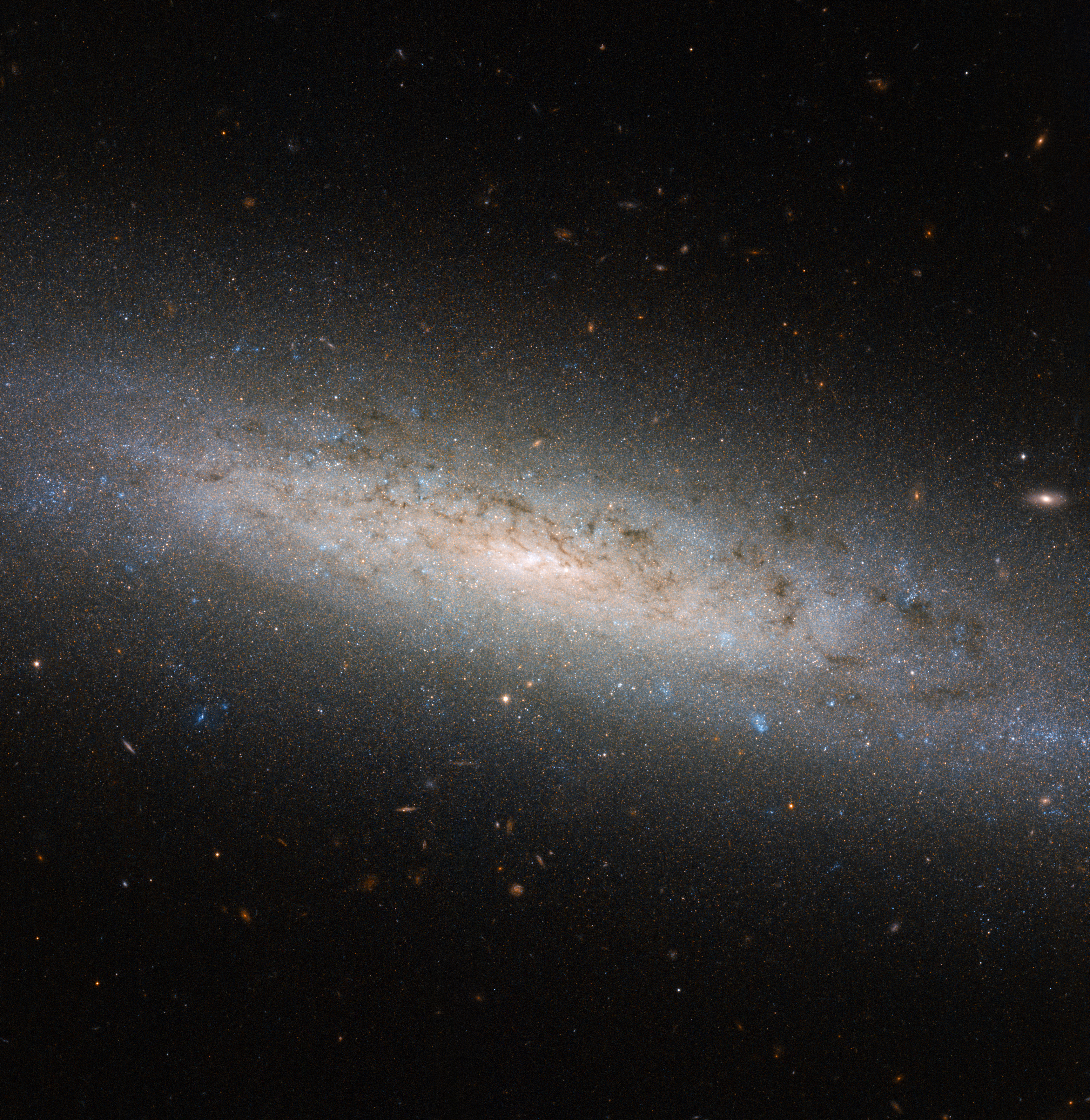 This shining disc of a spiral galaxy sits approximately 25 million light-years away from Earth in the constellation of Sculptor. Named NGC 24, the galaxy was discovered by British astronomer William Herschel in 1785, and measures some 40 000 light-years across. This picture was taken using the NASA/ESA Hubble Space Telescope’s Advanced Camera for Surveys, known as ACS for short. It shows NGC 24 in detail, highlighting the blue bursts (young stars), dark lanes (cosmic dust), and red bubbles (hydrogen gas) of material peppered throughout the galaxy’s spiral arms. Numerous distant galaxies can also been seen hovering around NGC 24’s perimeter. However, there may be more to this picture than first meets the eye. Astronomers suspect that spiral galaxies like NGC 24 and the Milky Way are surrounded by, and contained within, extended haloes of dark matter. Dark matter is a mysterious substance that cannot be seen; instead, it reveals itself via its gravitational interactions with surrounding material. Its existence was originally proposed to explain why the outer parts of galaxies, including our own, rotate unexpectedly fast, but it is thought to also play an essential role in a galaxy’s formation and evolution. Most of NGC 24’s mass — a whopping 80 % — is thought to be held within such a dark halo. Coordinates Position (RA): 0 9 56.19 Position (Dec): -24° 57' 50.57" Field of view: 2.86 x 2.94 arcminutes Orientation: North is 31.4° left of vertical Colours & filters Band Wavelength Telescope Optical V 606 nm Hubble Space TelescopeACS Infrared I 814 nm Hubble Space Telescope ACS Optical V 606 nm Hubble Space Telescope ACS InfraredI 814 nm Hubble Space Telescope ACS .